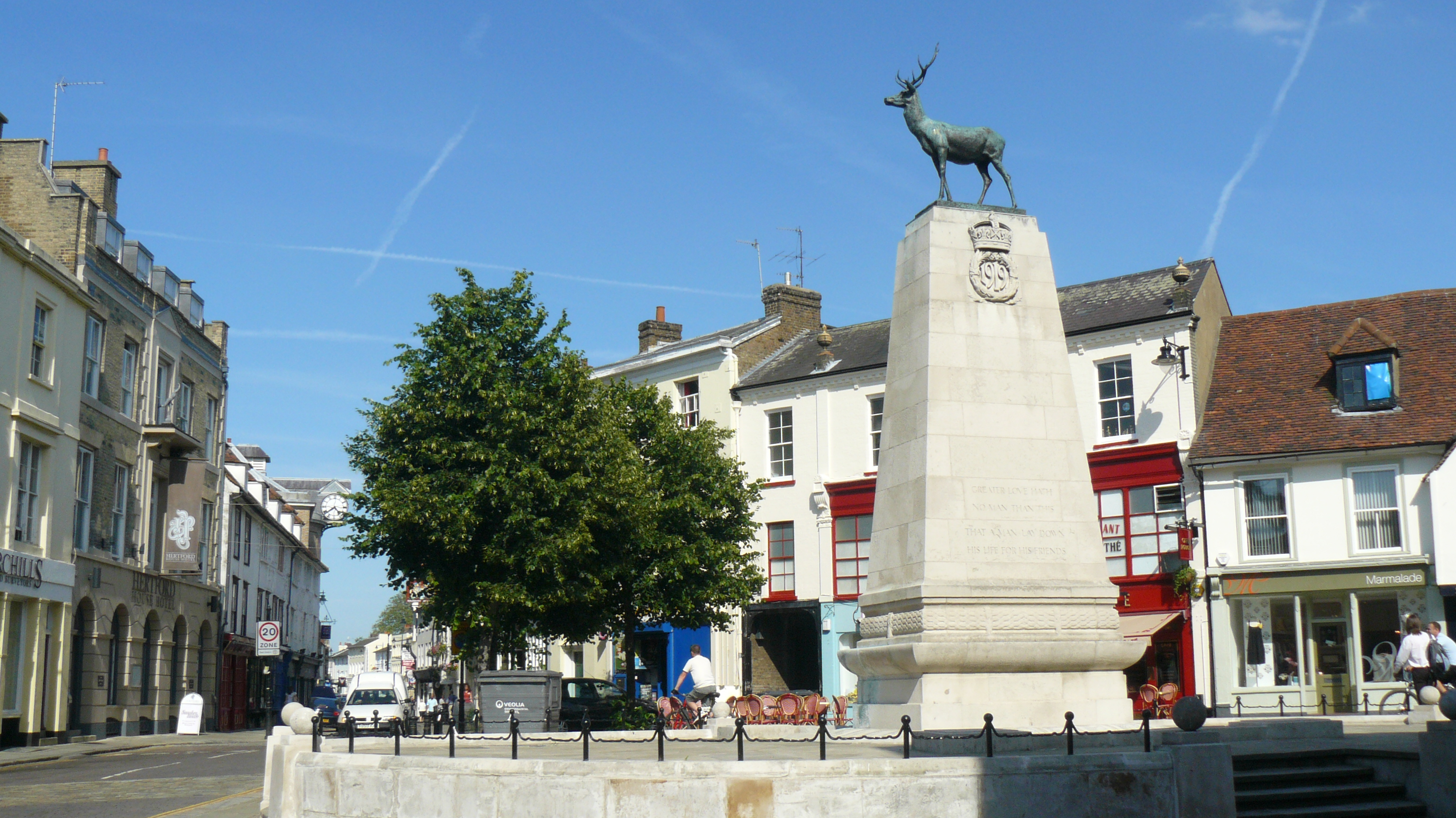 Author: Jamsta